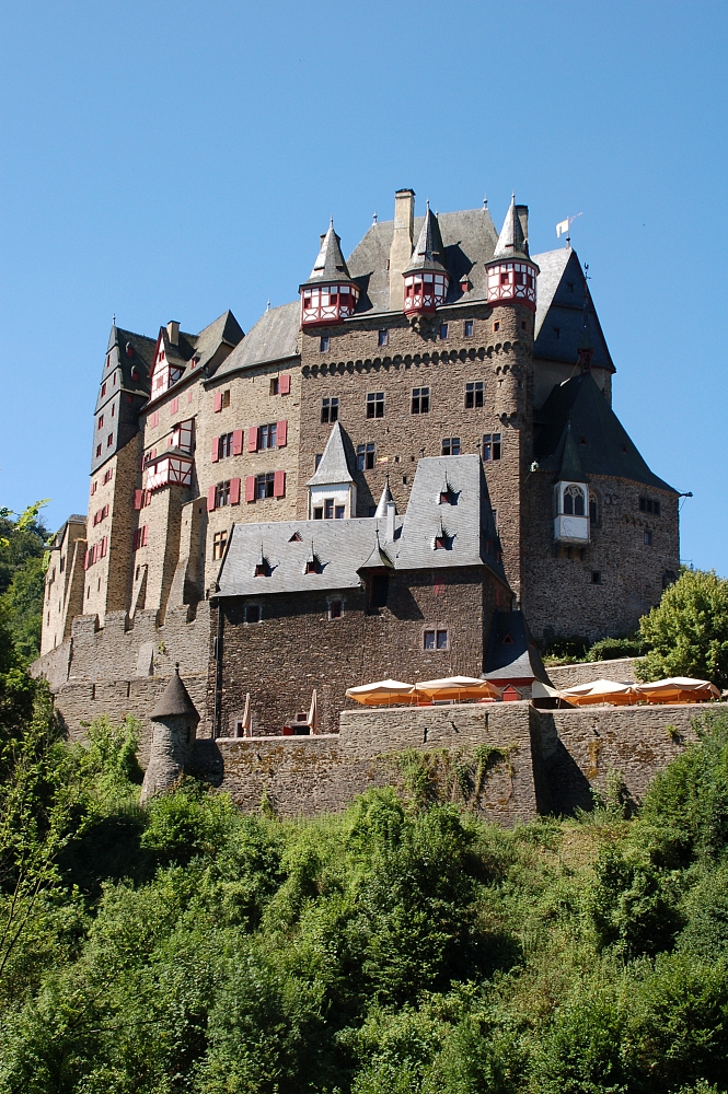 Burg Eltz, Castle in Rhineland-Palatinate, Germany